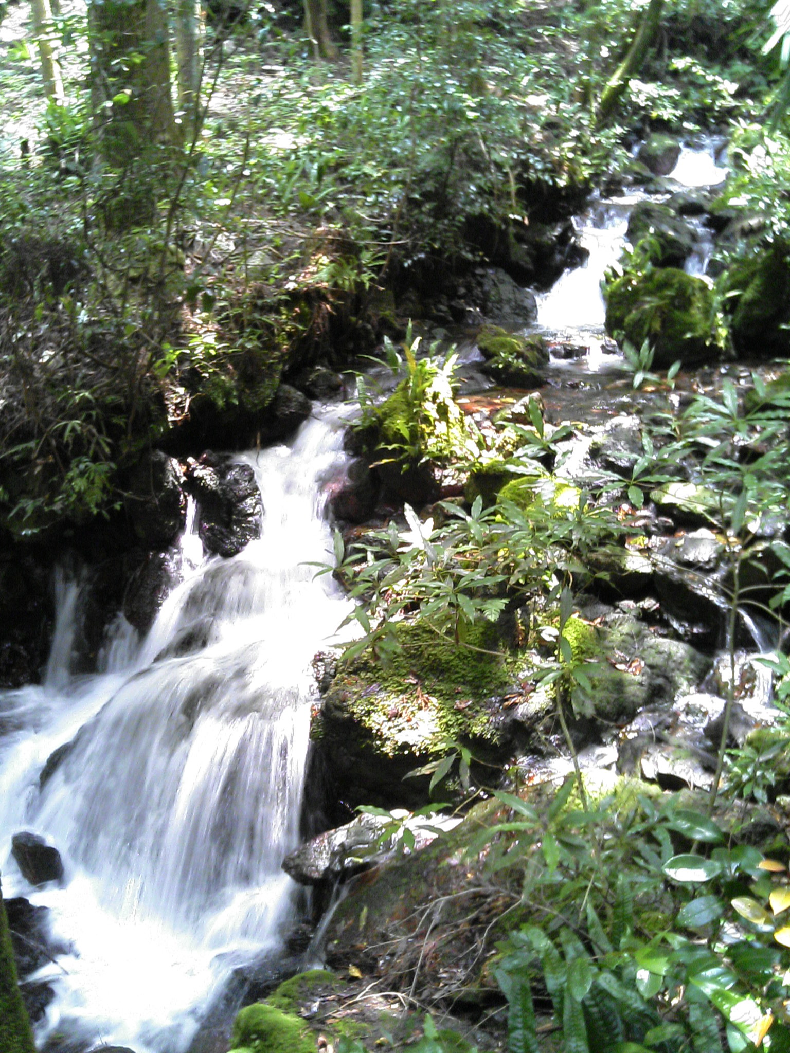 A waterfall of Kannon Spring Water (観音水) in Seiyo, Ehime, Japan. Named one of Japan's 100 best natural springs (名水百選).